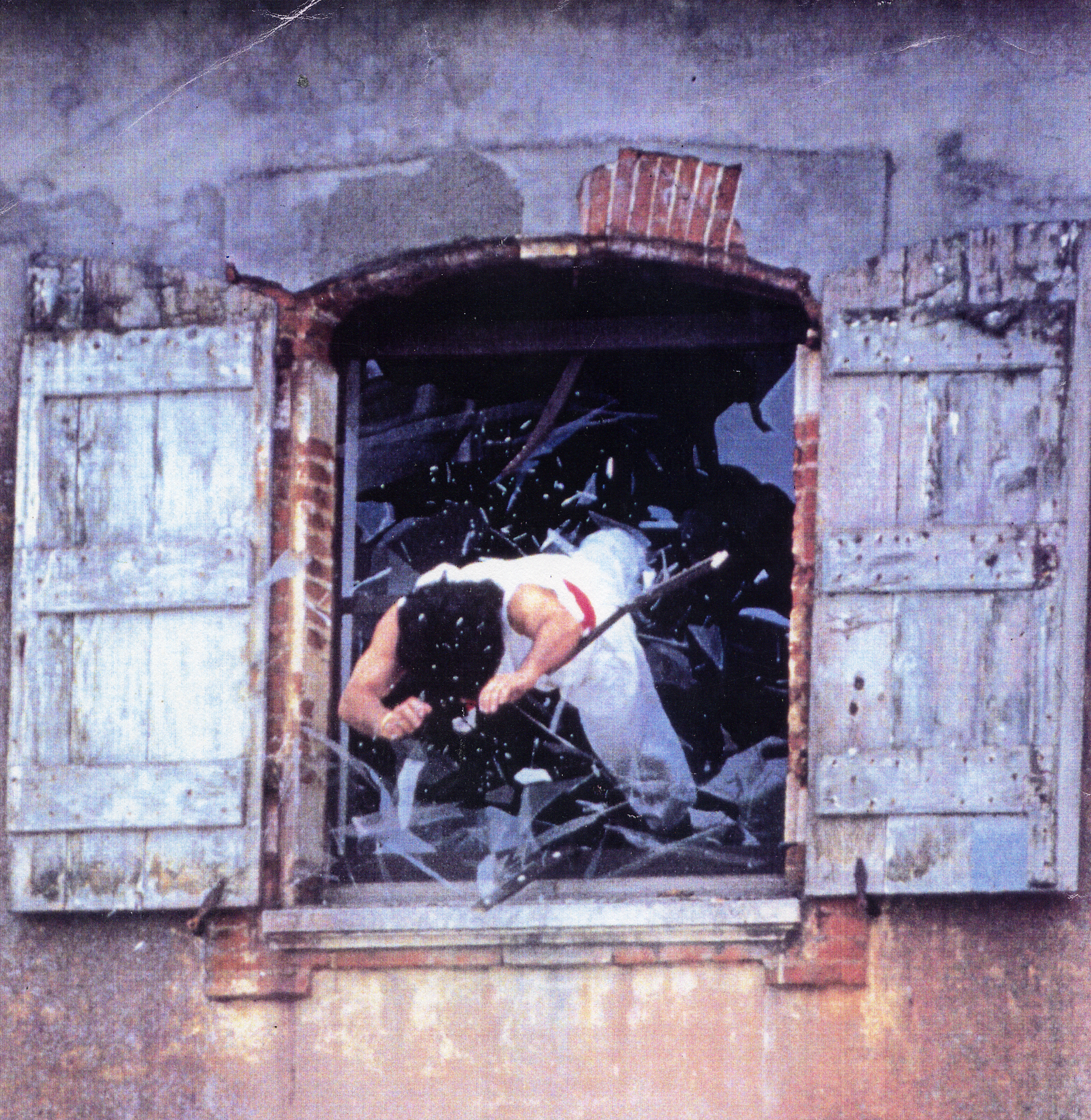 Photography of the defenestration of the stuntman Louis-Marc Marty for the film "Parrallèle extrème".